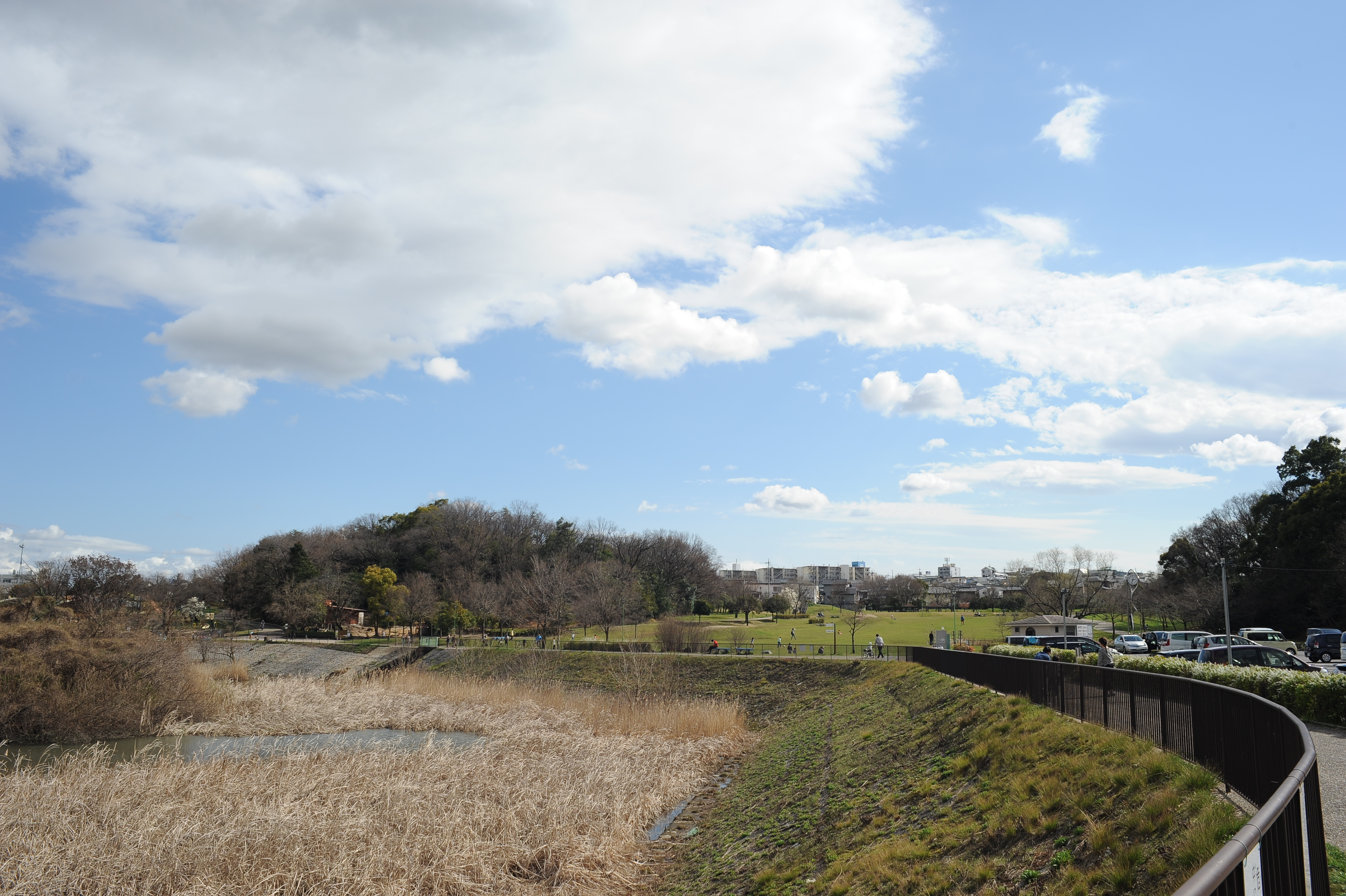 Tenpaku Park, Tenpaku-ku, Nagoya